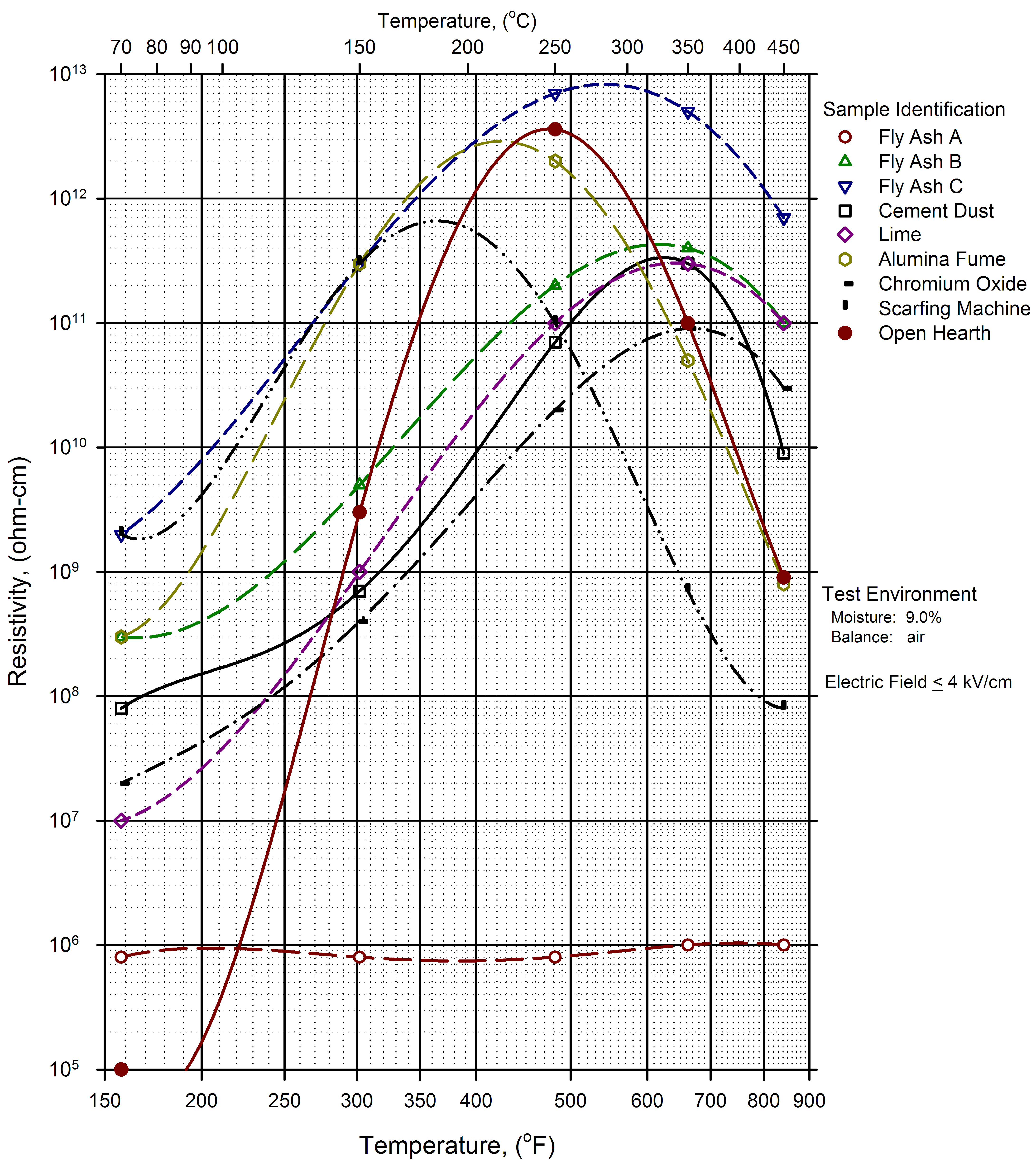 These data are examples of resistivity measured as a function of temperature for a variety of industrial dusts and fumes. The data were acquired in a humidified air atmosphere, without additional conditioning agents (e.g. sulfuric acid vapor).